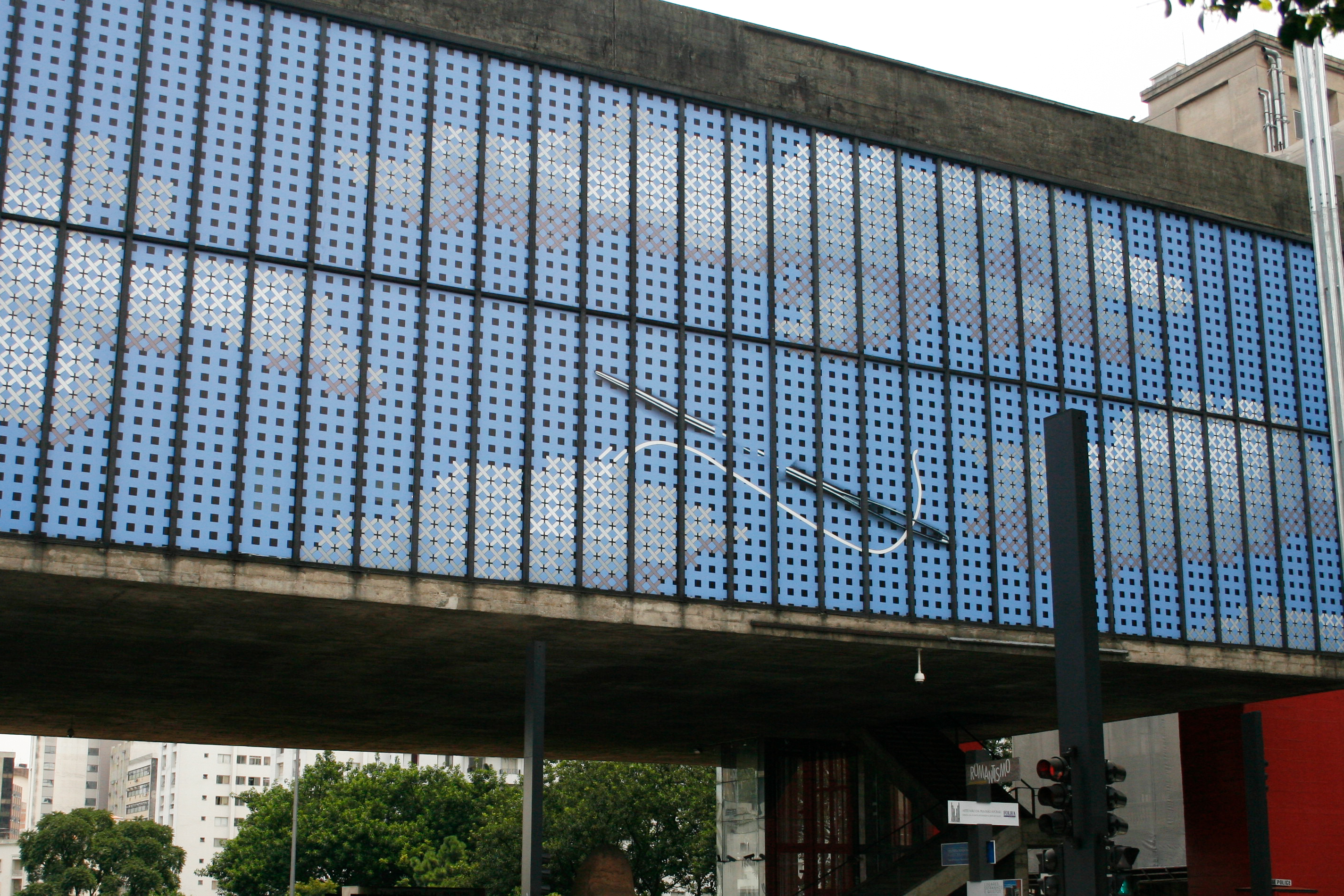 Masp in Sao Paulo